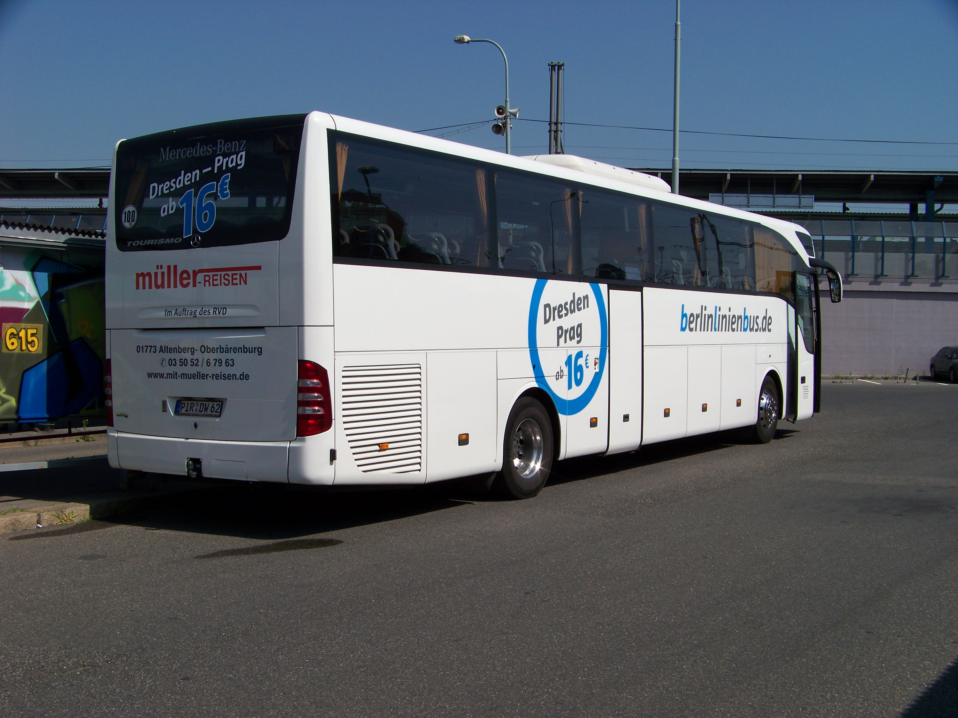 Prague-Holešovice, Czech Republic. Nádraží Holešovice station, a bus Mercedes-Benz Tourismo of RVD.